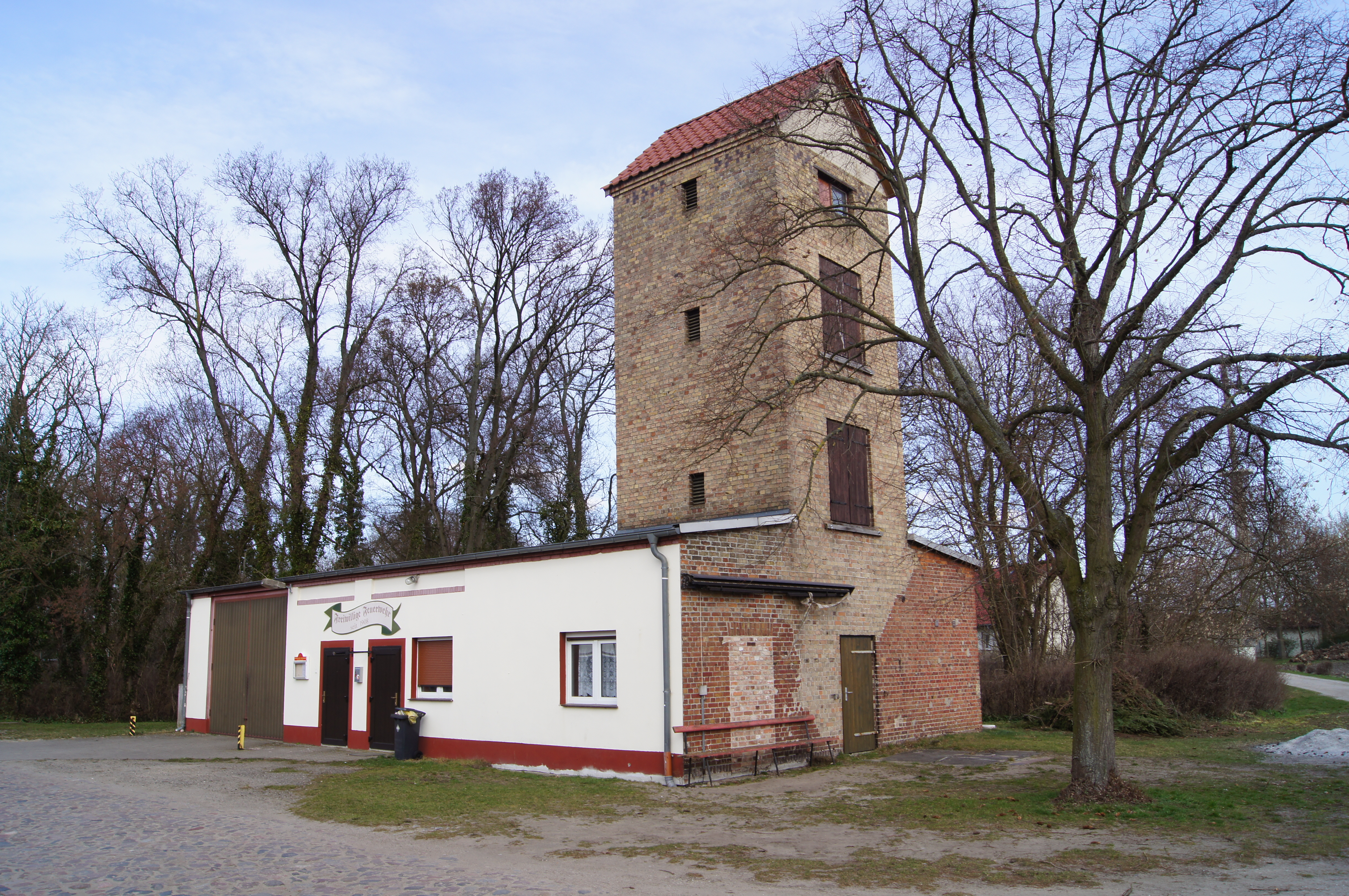 Fire station Gross Neuendorf, Letschin, Brandenburg, Germany